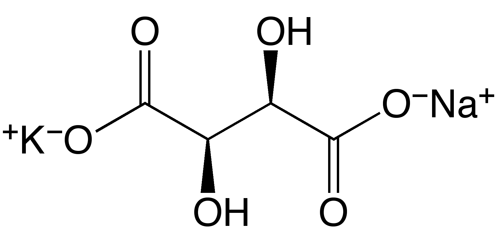 Self-made in ChemDraw after building a Molymod model from the structure shown in tartaric acid. Ben 17:35, 26 February 2006 (UTC)